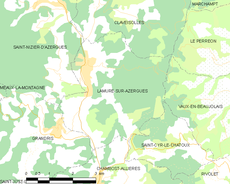 Map of French municipality